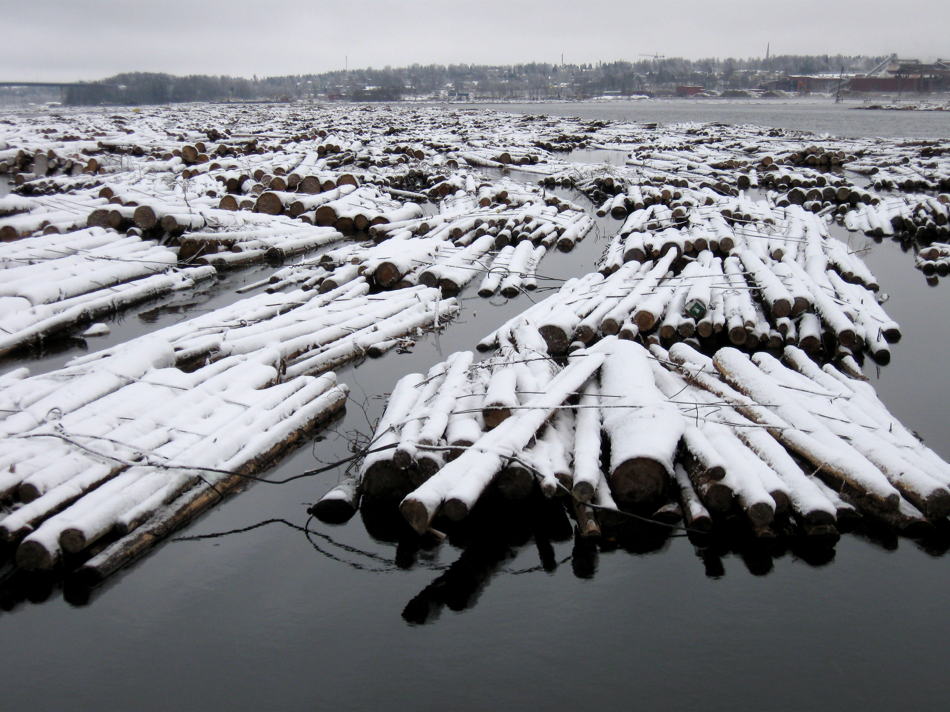 Snow-covered rafts of timber being floated to Kaukas Paper Mills in Lappeenranta, Finland. The floating takes place on Lake Saimaa.